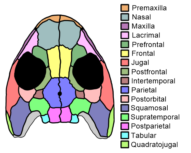 A diagram of the skull of Eucritta melanolimnetes, a Carboniferous stegocephalian. The skull is seen in dorsal view, and based on a skull reconstruction published by Clack (1998) using specimen NMS 1992.14